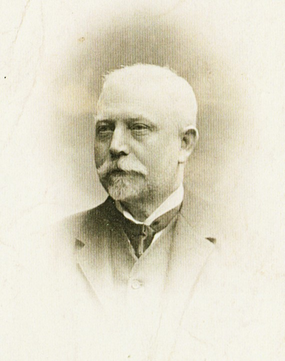 Josef Mathauser (1846–1917), Bohemian painter of historical, religious and genre themes.